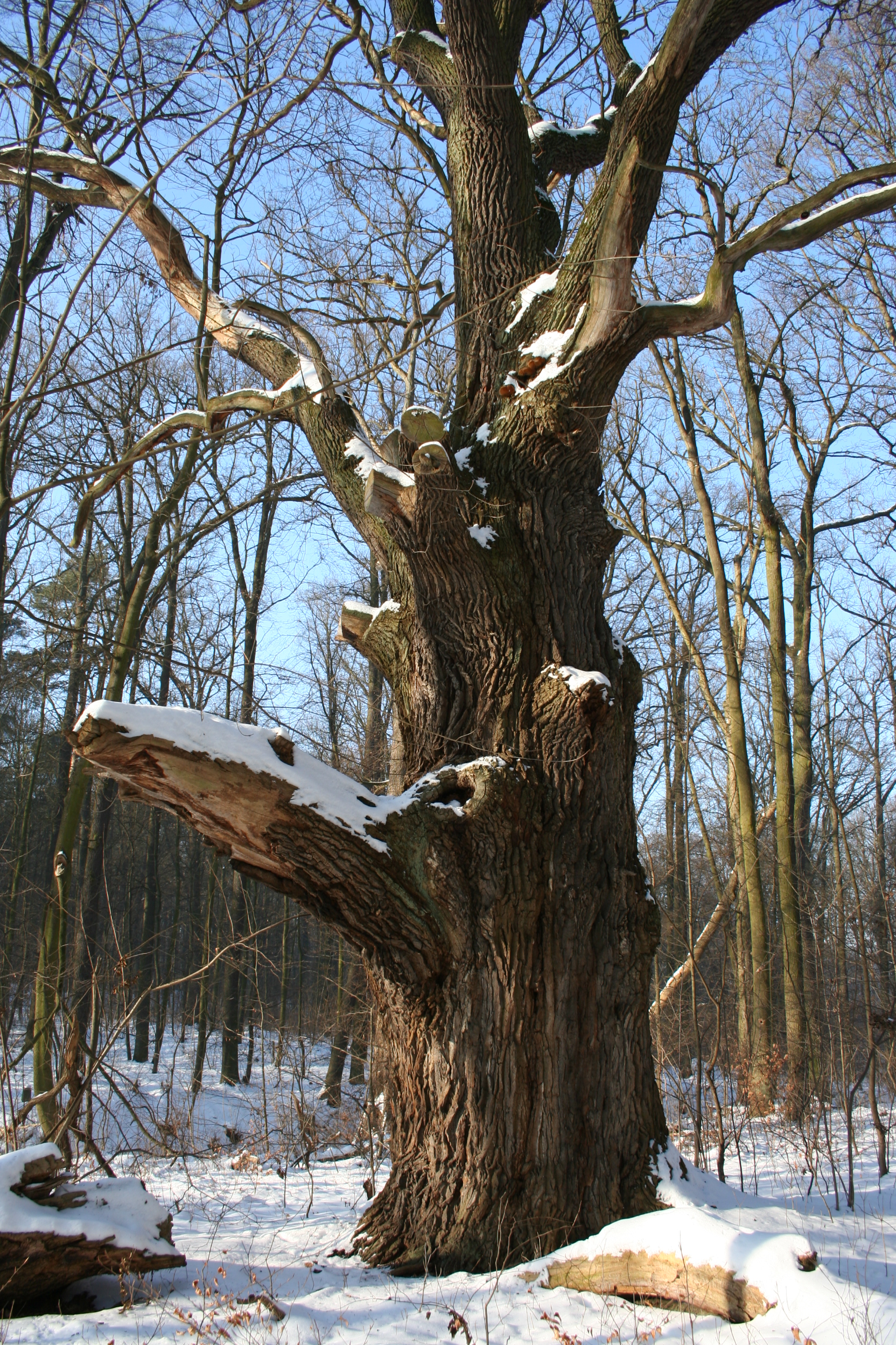 English oak (Quercus robur) in the Kolno Międzychodzkie nature reserve